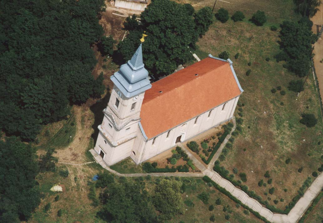 Bagamér, church, Hungary, aerial photography